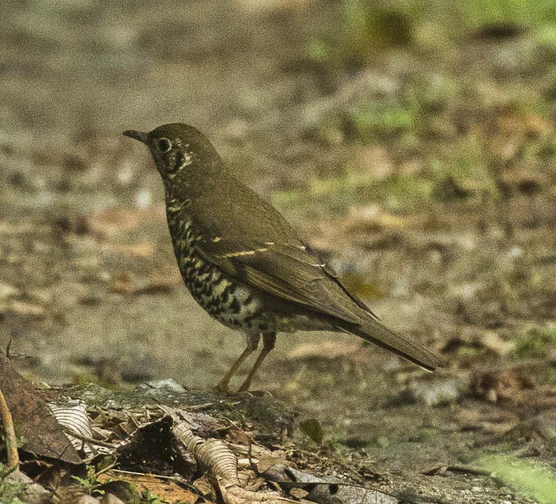 Long-tailed Thrush - Eaglenest - IndiaFJ0A0160